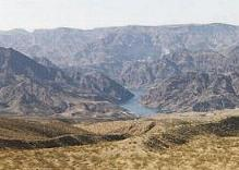 Colorado River behind Hoover Dam